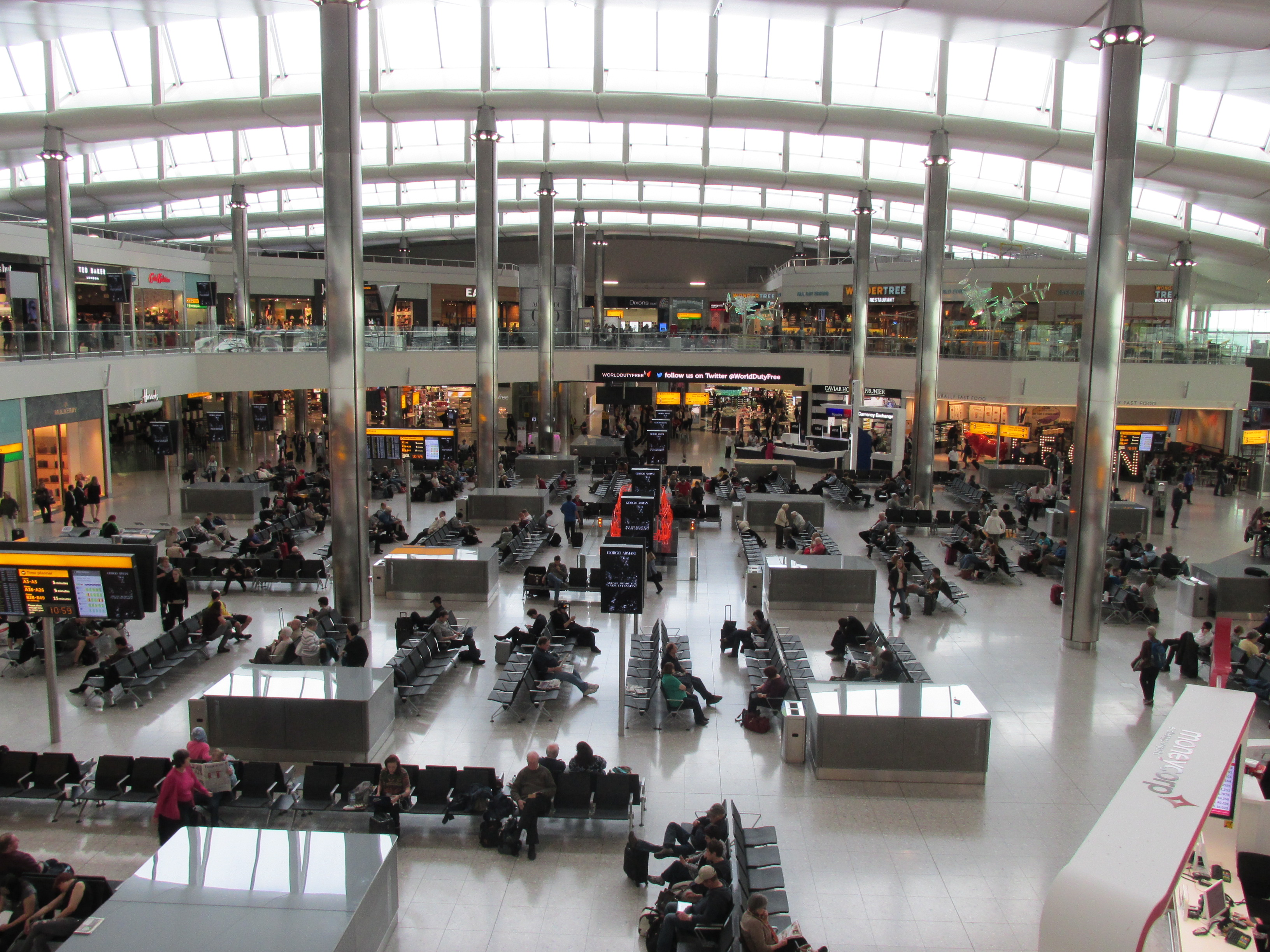 View across the central area of London Heathrow Terminal 2.